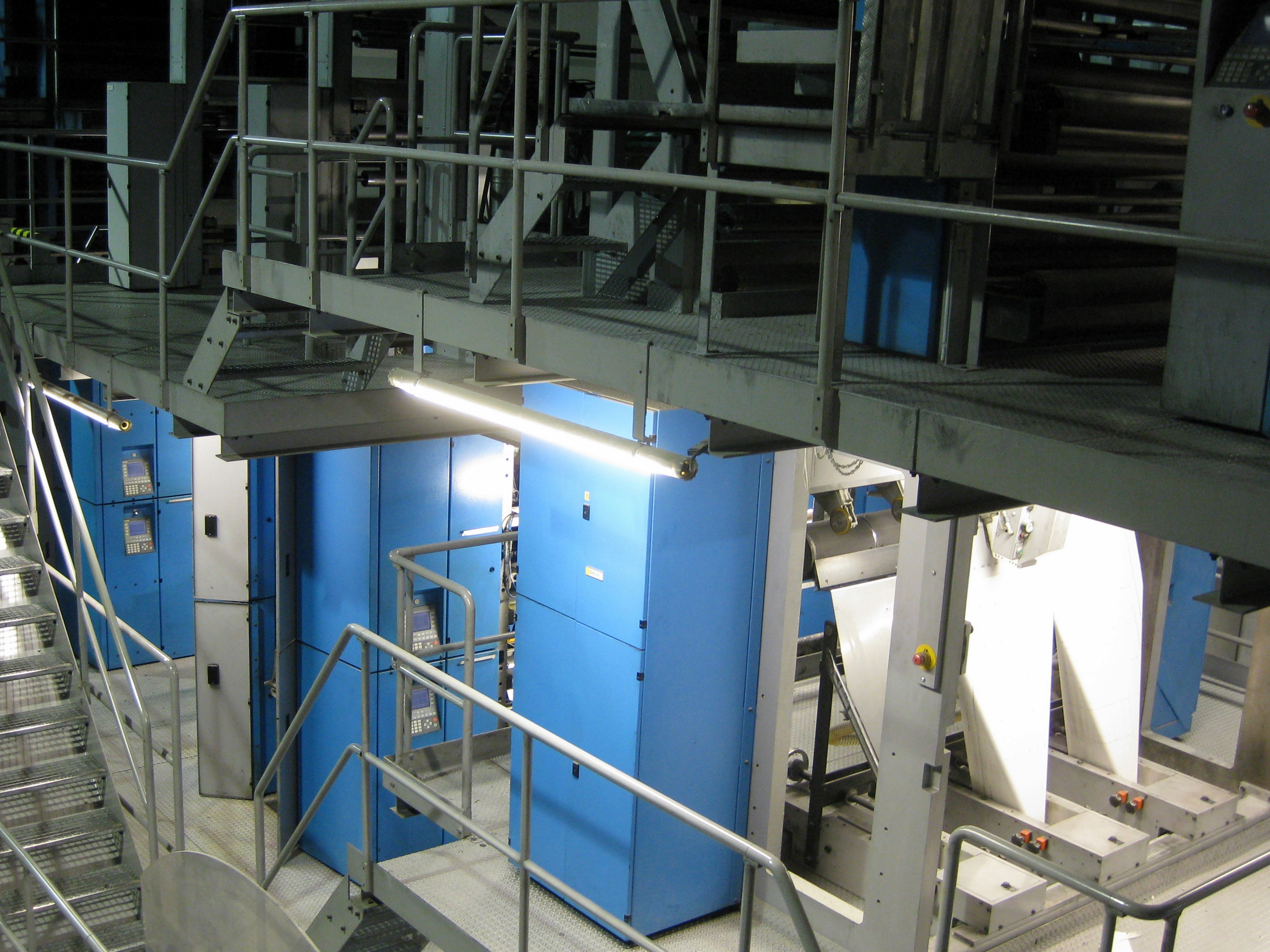 Germany, Bonn: printing machine at company site of printing and publishing company Bonner Zeitungsdruckerei und Verlagsanstalt H. Neusser GmbH; printing and editing etc. the daily newspaper General-Anzeiger Bonn.